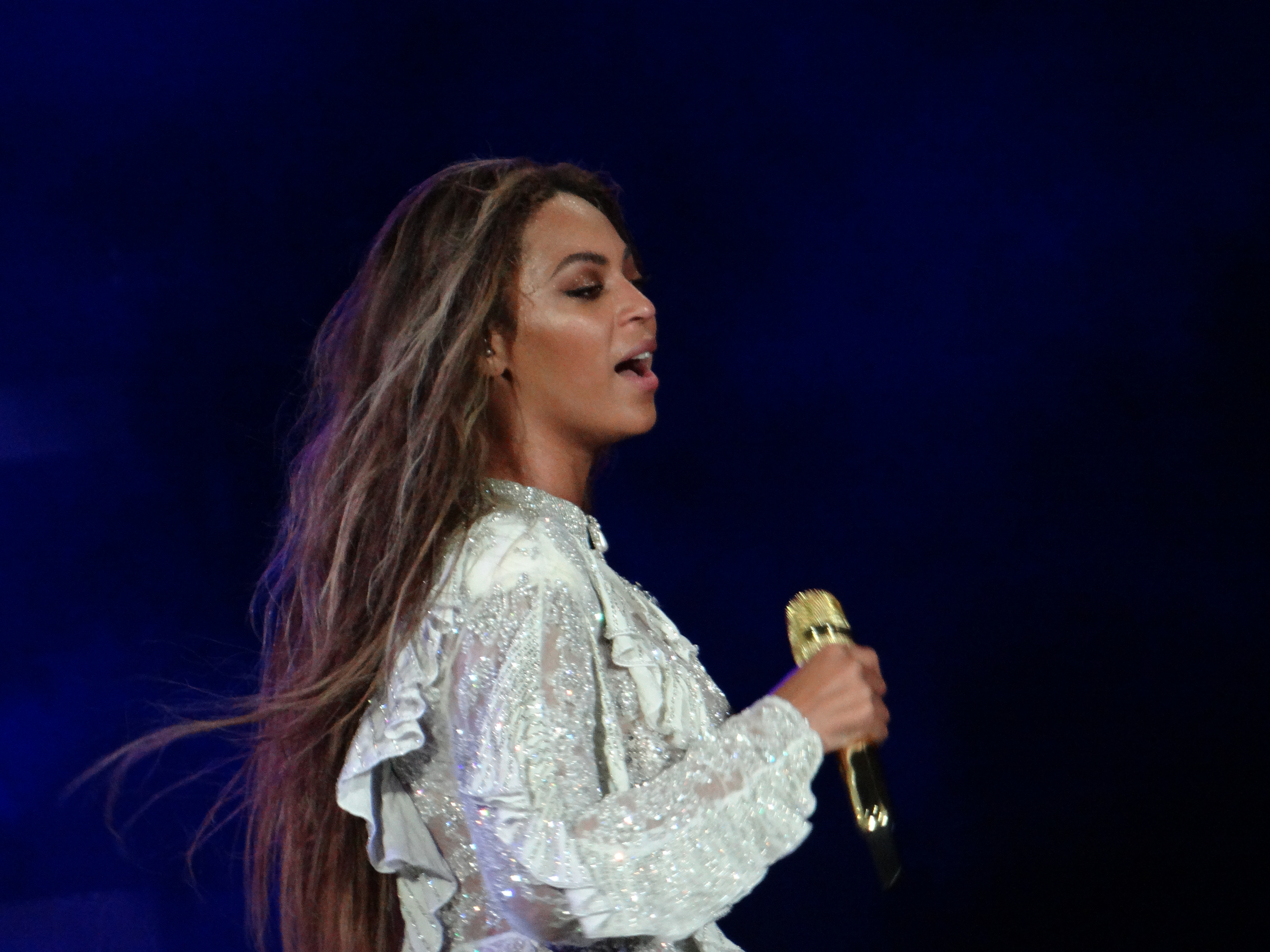 Beyoncé performing during The Formation World Tour in Raleigh, North Carolina on May 3, 2016